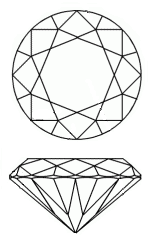 Brillant cut